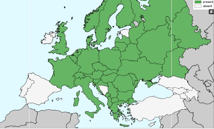 Rasprostranjenje vrste u Evropi (Fauna Europaea)